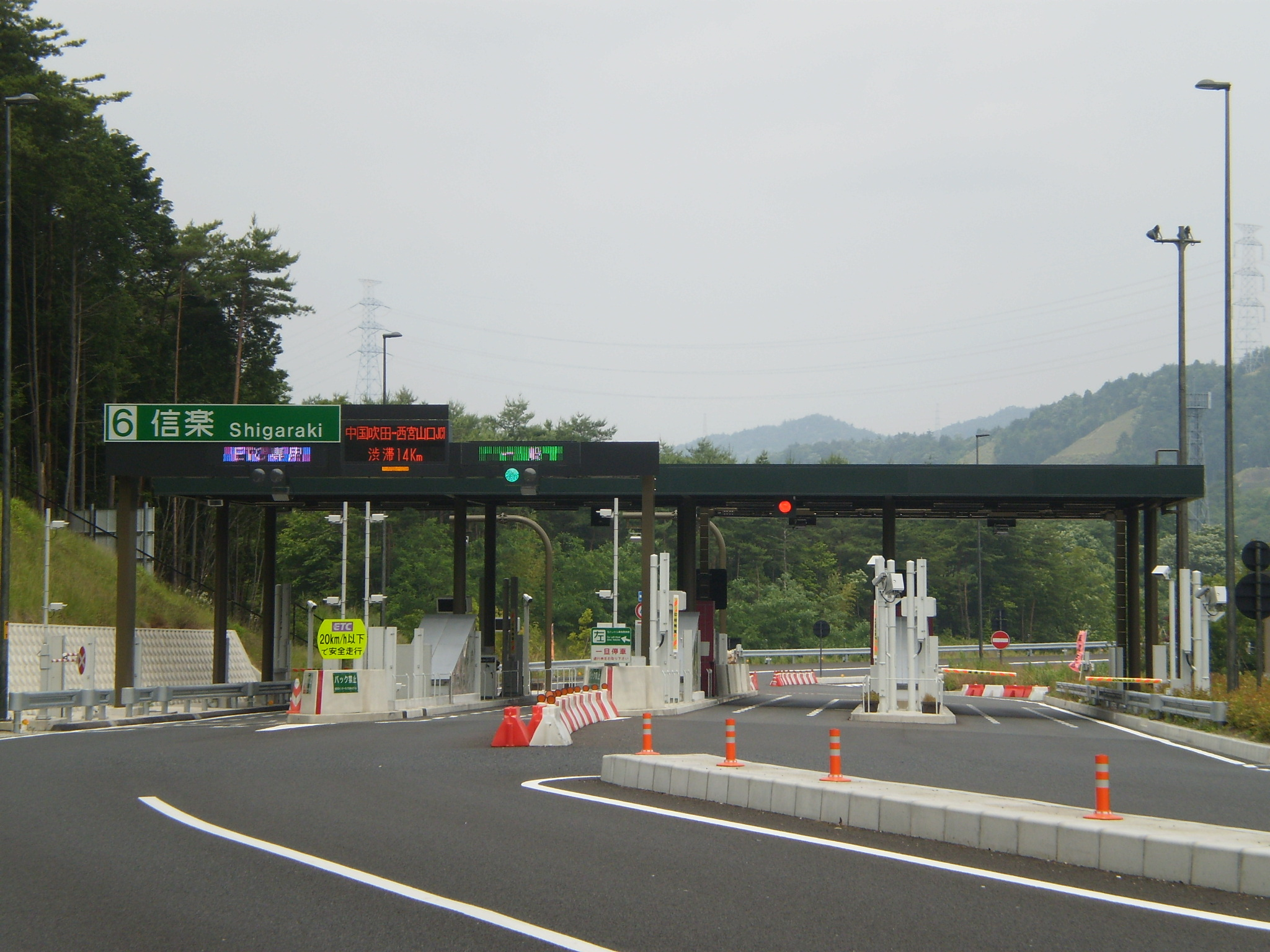 Shigaraki interchange of Shin-Meishin Expressway. I took this image at Kinose Shigaraki-cho Koka City Shiga Pref., Japan.